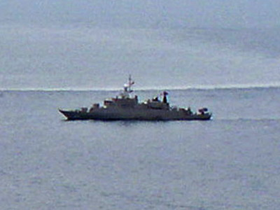 South China Sea (April 25, 2006) - HTMS Rattanakosin (FSG 441) of the Royal Thai Navy in the South China Sea underway. U.S. Navy photo by Intelligence Specialist 1st Class John J. Torres (RELEASED)